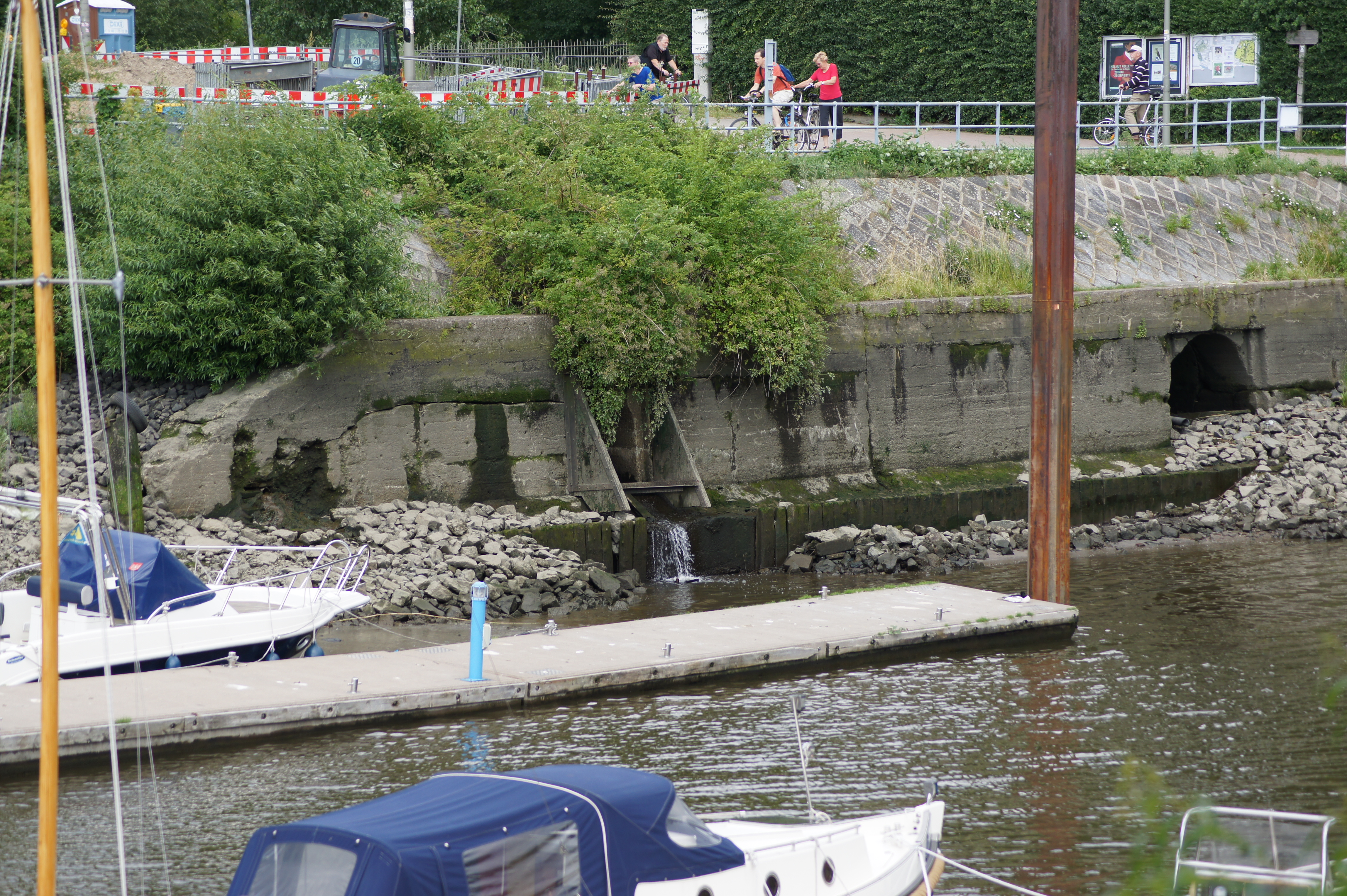 Hamburg (Othmarschen), Germany: The confluence of the Große Flottbek and the Elbe at the port of Teufelsbrück